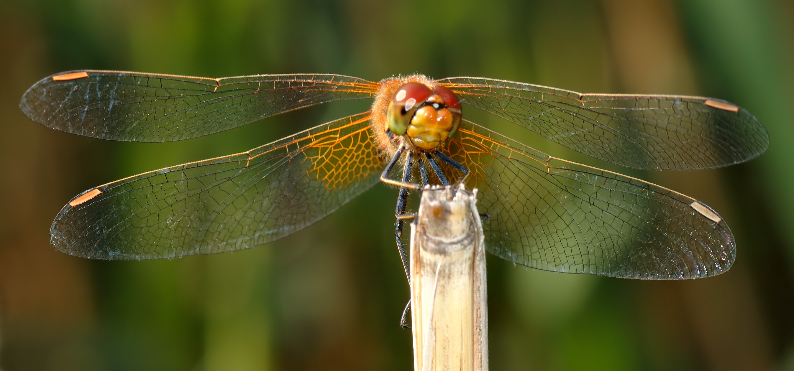 This image shows a Yellow-winged Darter (Sympetrum flaveolum) from the front.